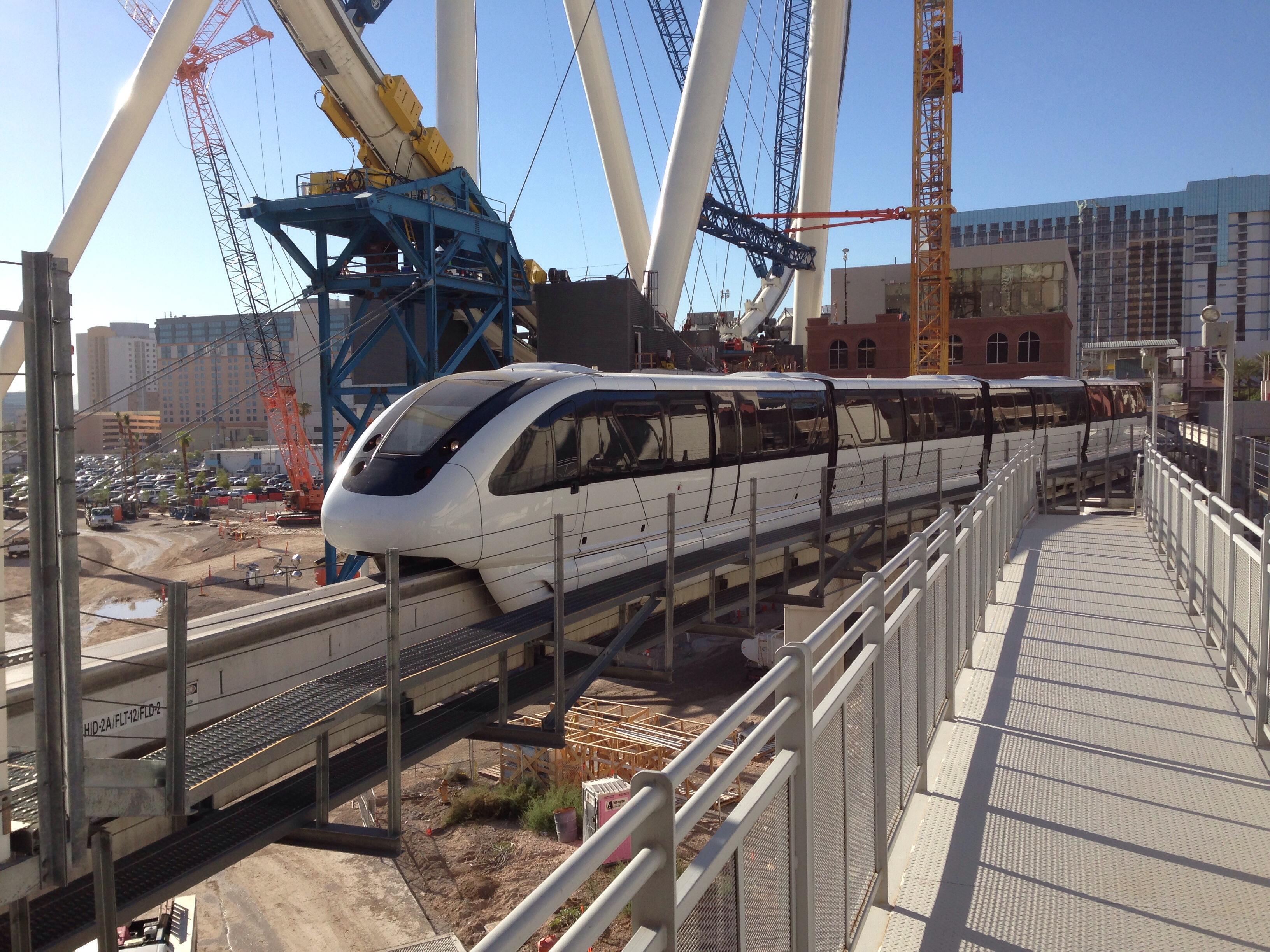 Nice to have some fixed-guideway transit on the strip, only it would be so much better if it was actually on the strip and not behind the hotels and parking garages.